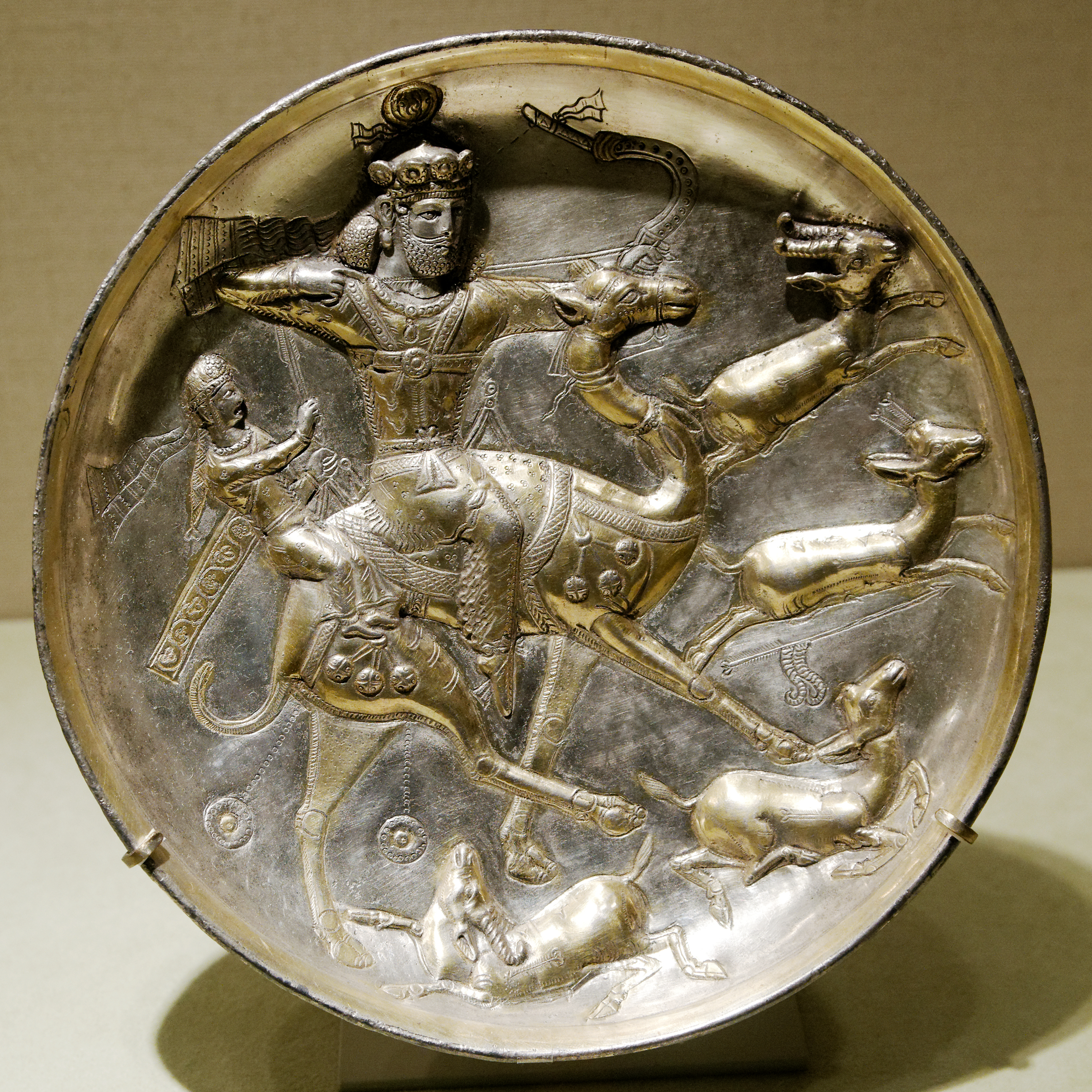 Plate with a hunting scene from the tale of Bahram Gur and Azadeh, Sasanian artwork.